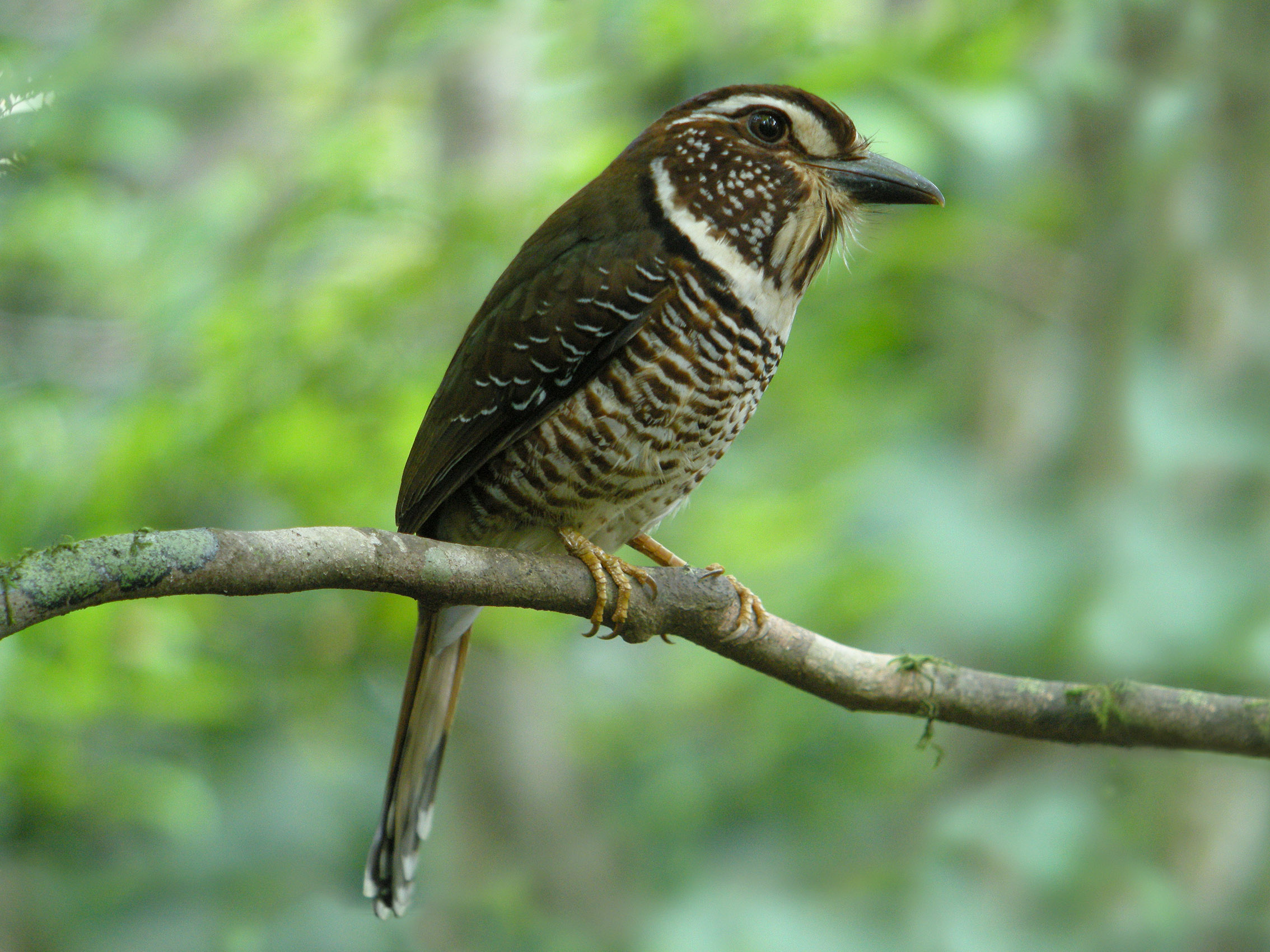 Short-legged Ground-roller, Masoala National Park, Madagascar This Short-legged Ground-roller was "digiscoped" with an incredible 2 seconds exposure time ! It was displaying its typical courtship call, under dark forest cover, perched ca. 4 meters above ground. Swarowski 80 HD 30 X, Coolpix P5100 (Adapter DCB)